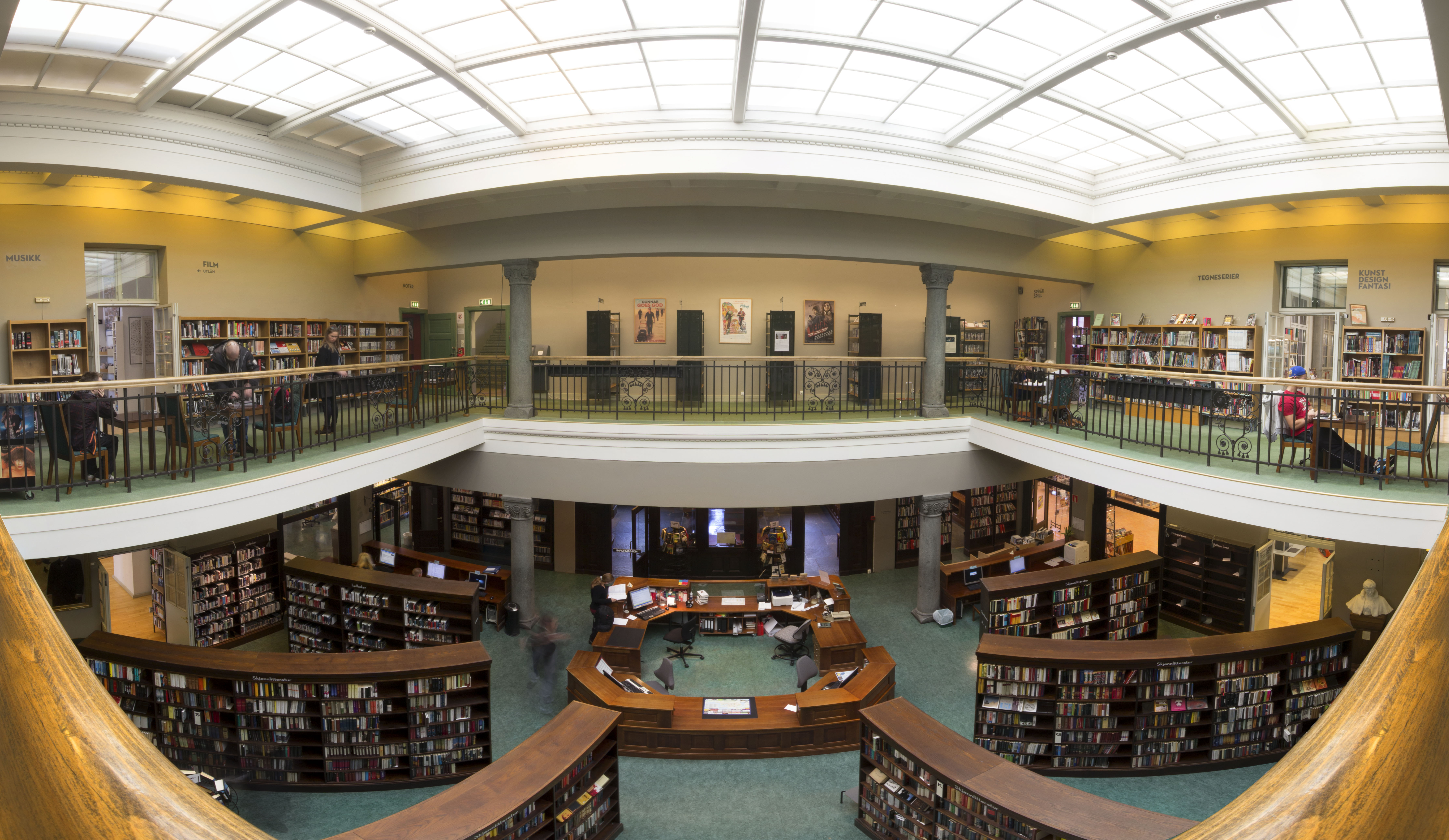 An interior view of the entire central room in the Bergen Library taken in the mid-afternoon